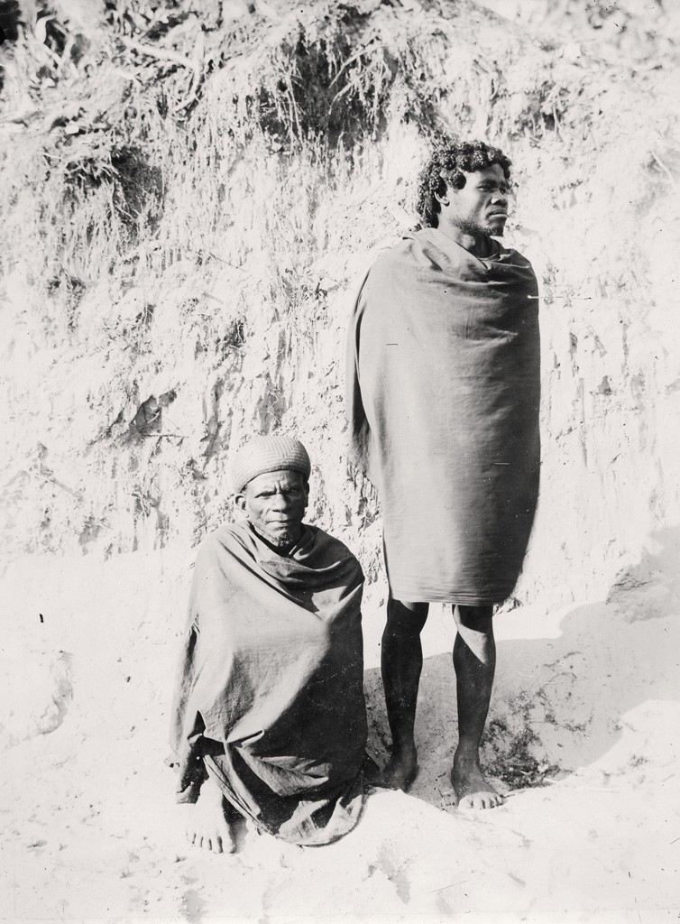 Two Antanosy men, 1900/1910.